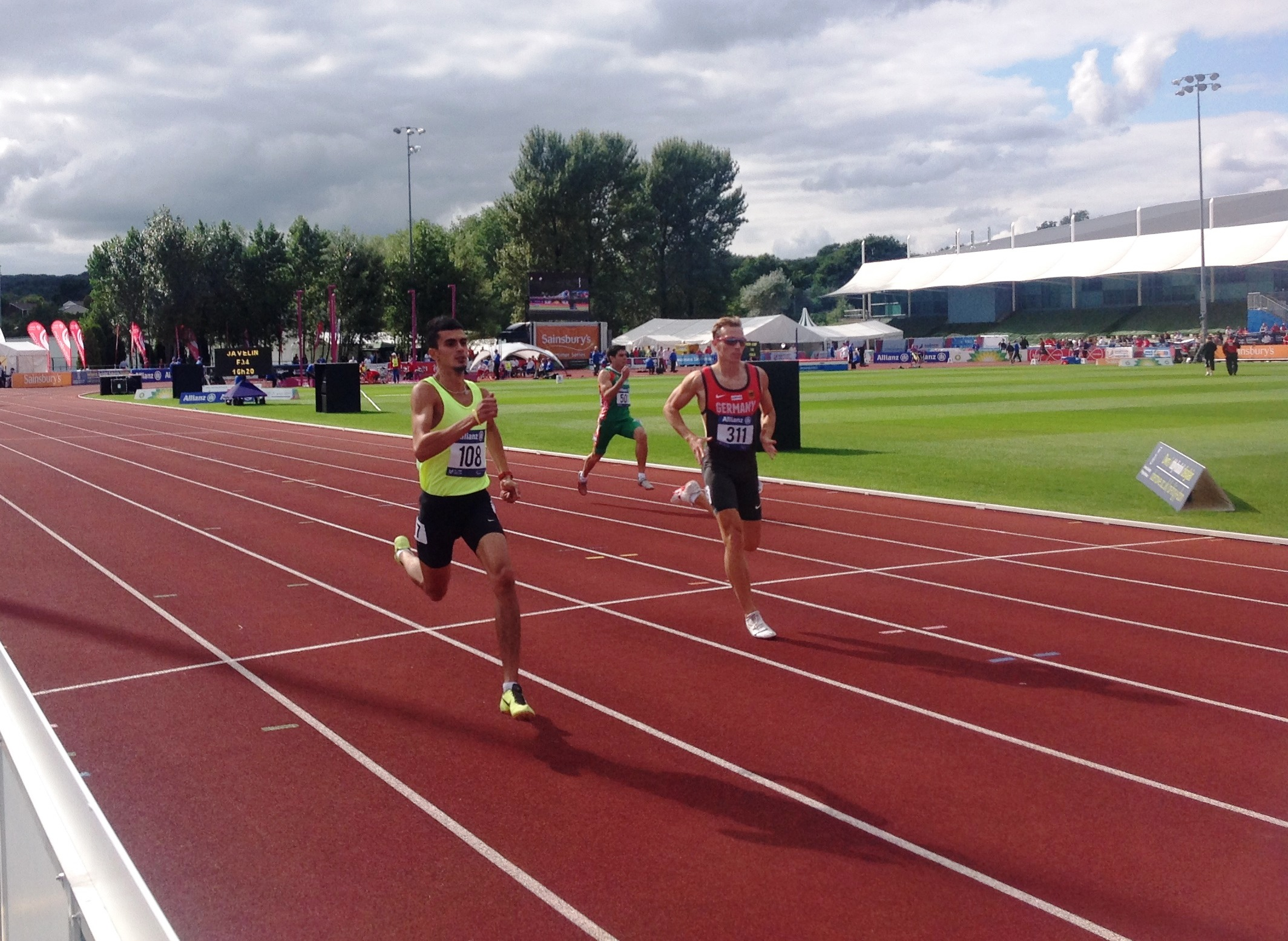 The 4th IPC Athletics European Championships. Held at Swansea University Stadium in Swansea, Wales. Thomas Ulbricht of Germany (311) secures gold in the Men's 400m T12 final. Other athletes shown are Elmir Jabrayilov of Azerbaijan (108) and in the distance eventual silver medallist Luís Gonçalves of Portugal.